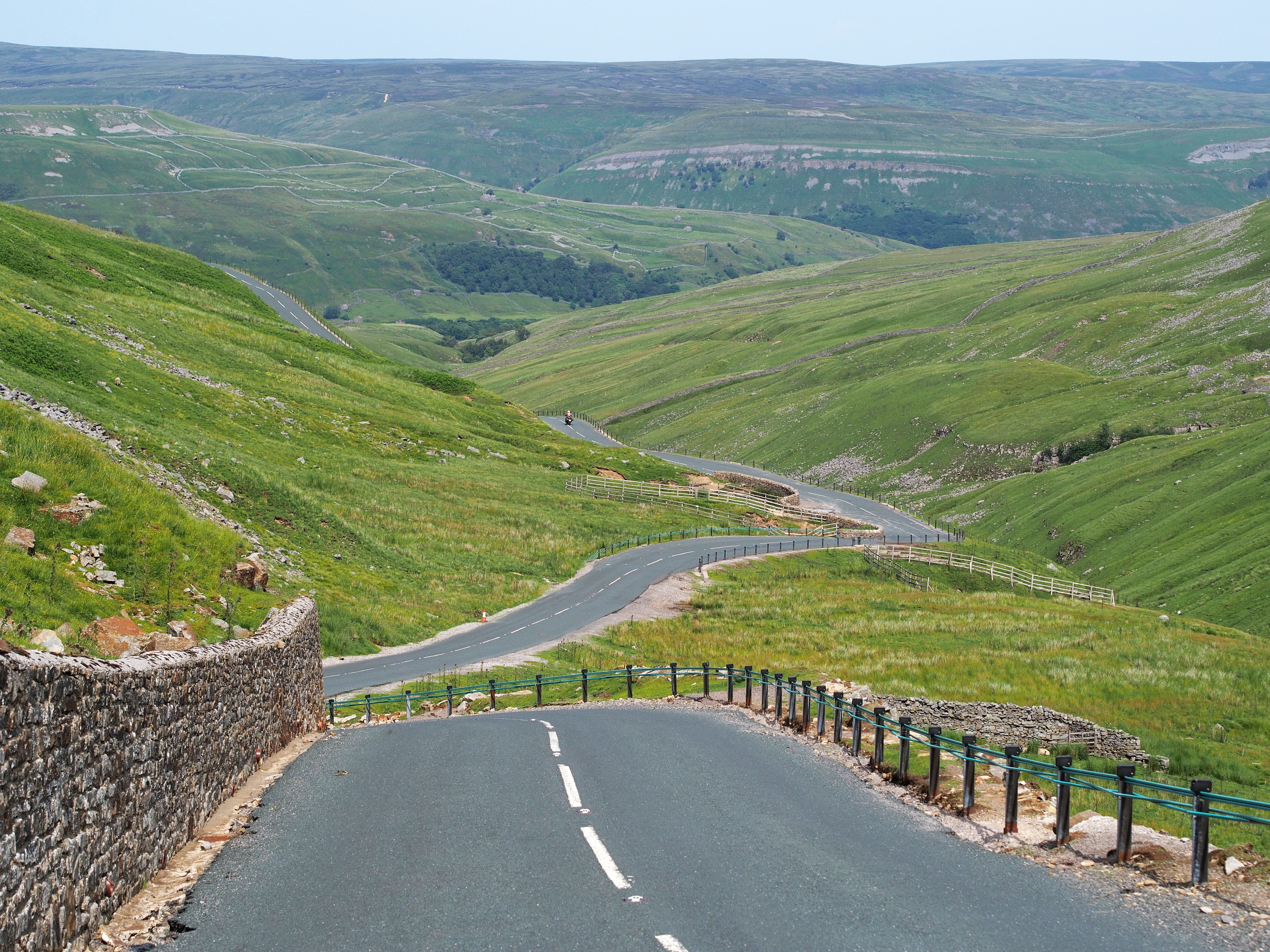 Butter Tubs Pass, North Yorkshire